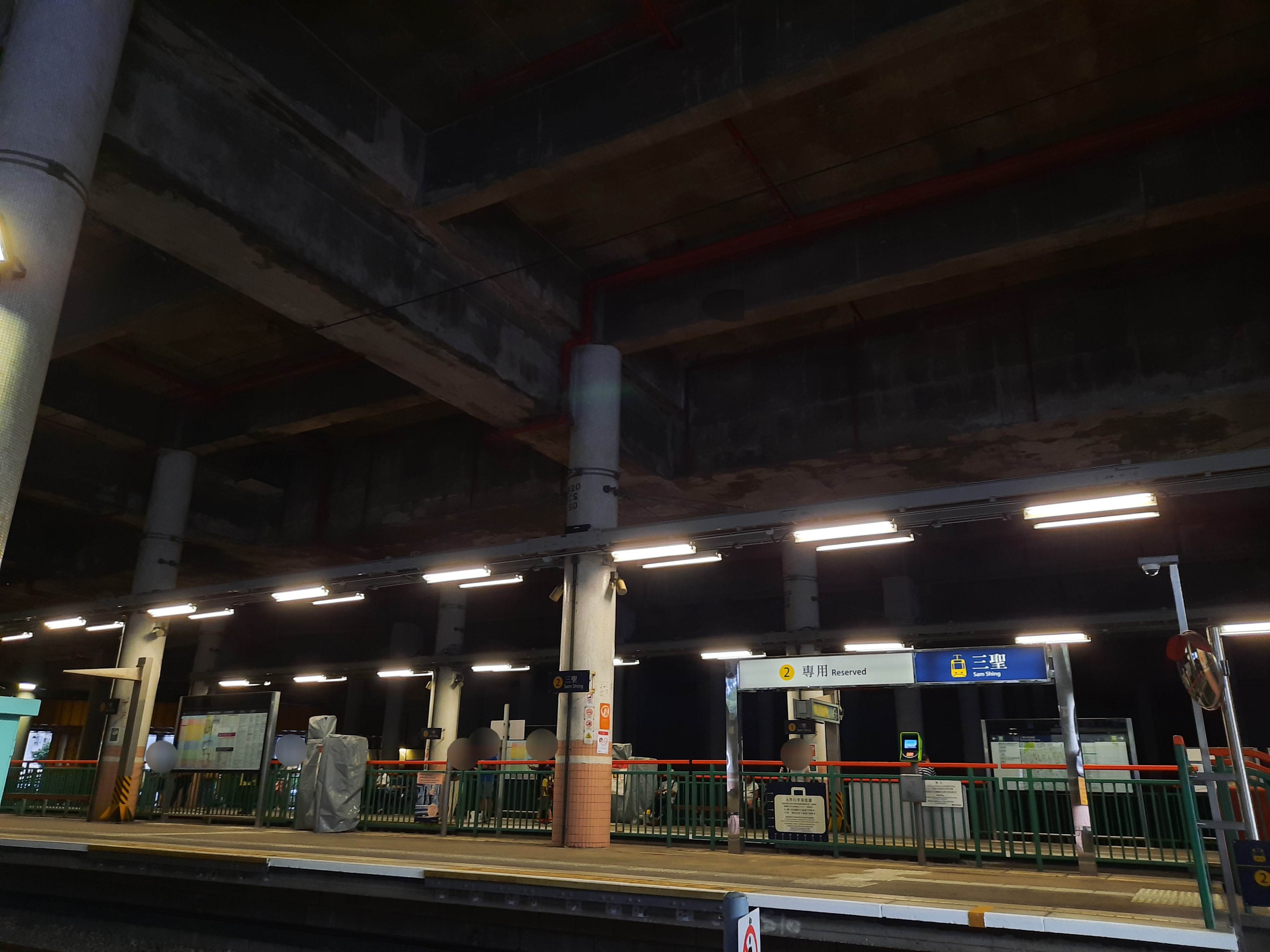 LRT Sam Shing Terminus 中文（香港）: 香港輕鐵三聖總站